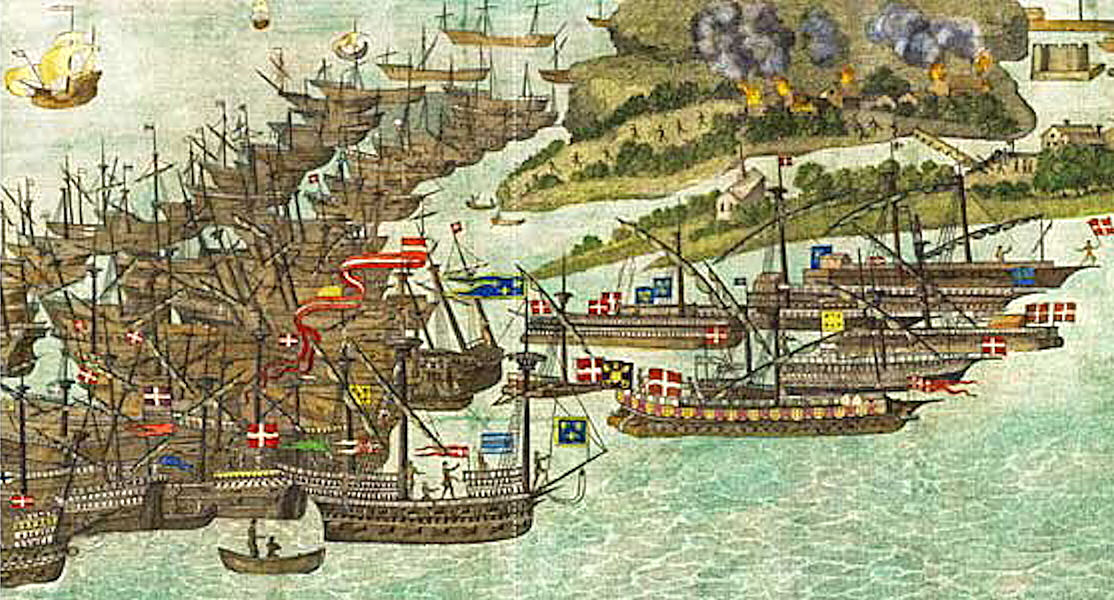 Picture illustrating a hostile French fleet near the Isle of Wight in 1545